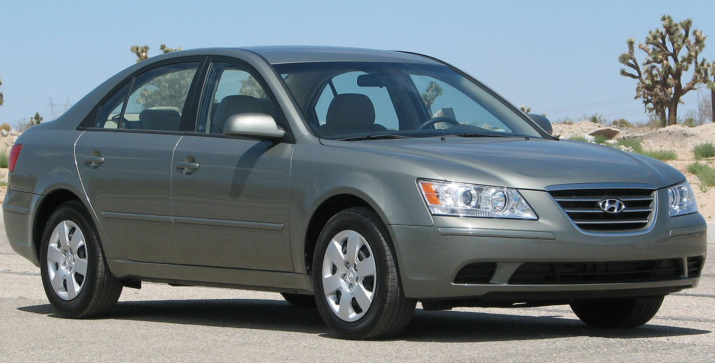 2009 Hyundai Sonata photographed in USA.